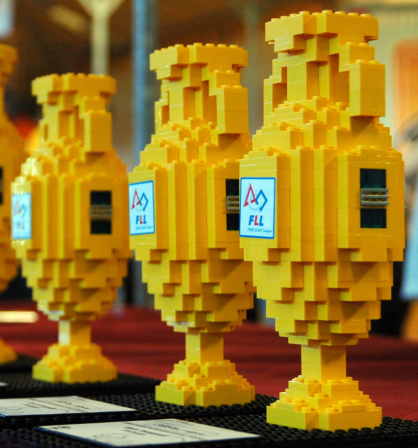 Trophies for the winners of a FIRST Lego League competition